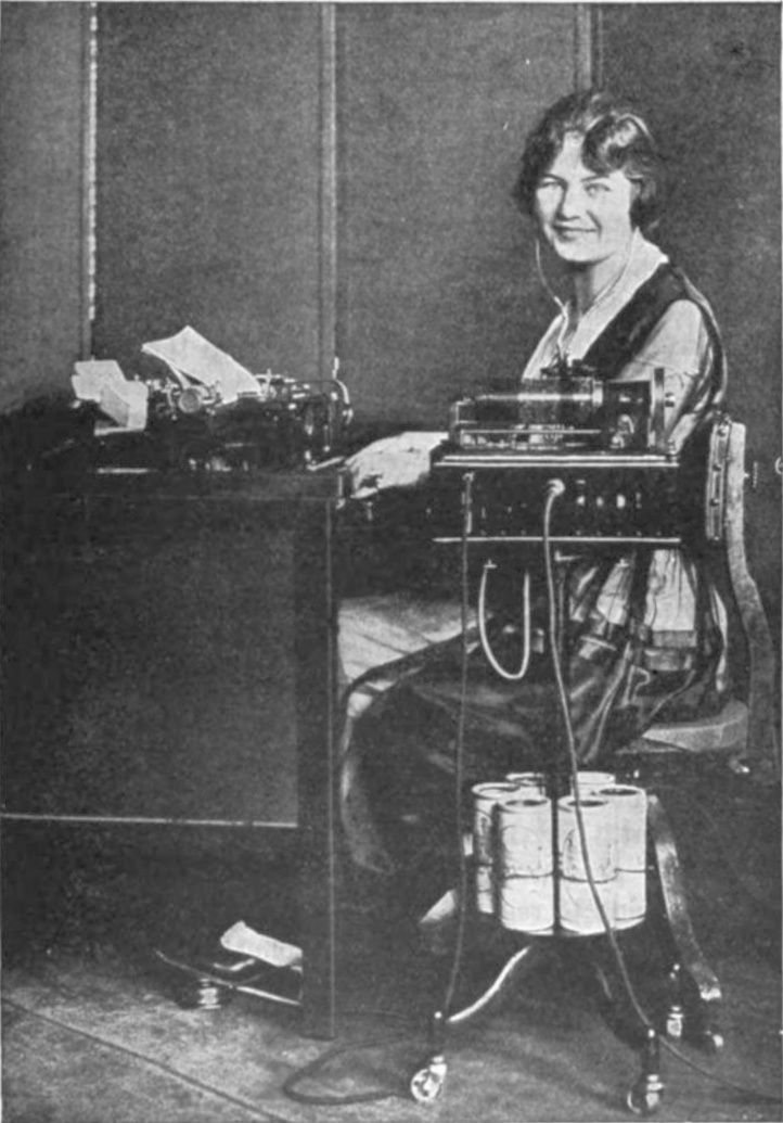 Transcribing dictation from a Dictaphone wax cylinder dictation machine, from the 1920s. The dictation machine is in the foreground. The typist is wearing 'stethoscope' type earphones attached to the machine. Her foot is on a pedal which starts and stops the playback. The white objects under the machine are more wax cylinders. The source text says a speedy dictaphone transcriber could earn $1.00 to $1.25 per hour, much higher than ordinary typists and stenographers. Alterations: removed caption, increased brightness.